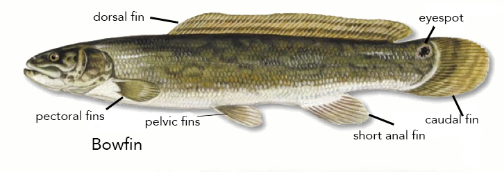 Diagram showing fins and eyespot of a bowfin